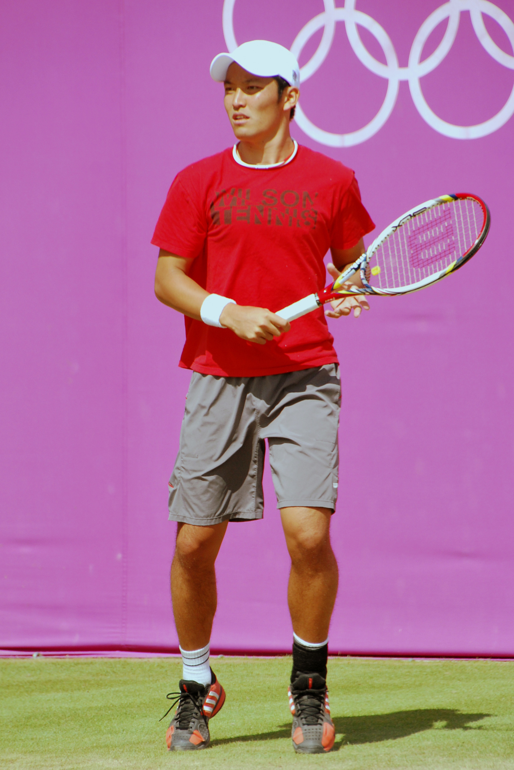 Tatsuma Ito on the practice court in the London 2012 Olympics, on the day 2 (first round) of the tennis at Wimbledon.